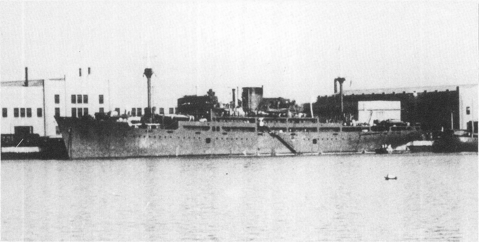 O.S.K. Line "Ukishima Maru" (IJN Auxiliary cruiser)